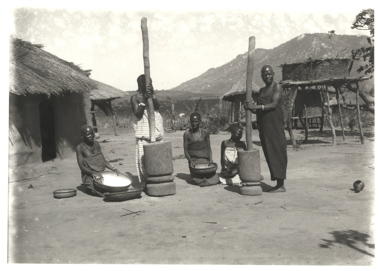 Women pounding maize